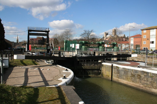 Stamp End Lock on the River Witham in Lincoln: view northwest with Lincoln Cathedral on the horizon